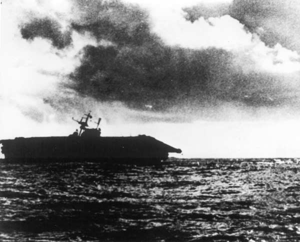 the U.S. Navy aircraft carrier USS Hornet (CV-8), severely listing, is abandoned by her crew at about 17:00 hrs during the Battle of the Santa Cruz Islands on 26 October 1942.